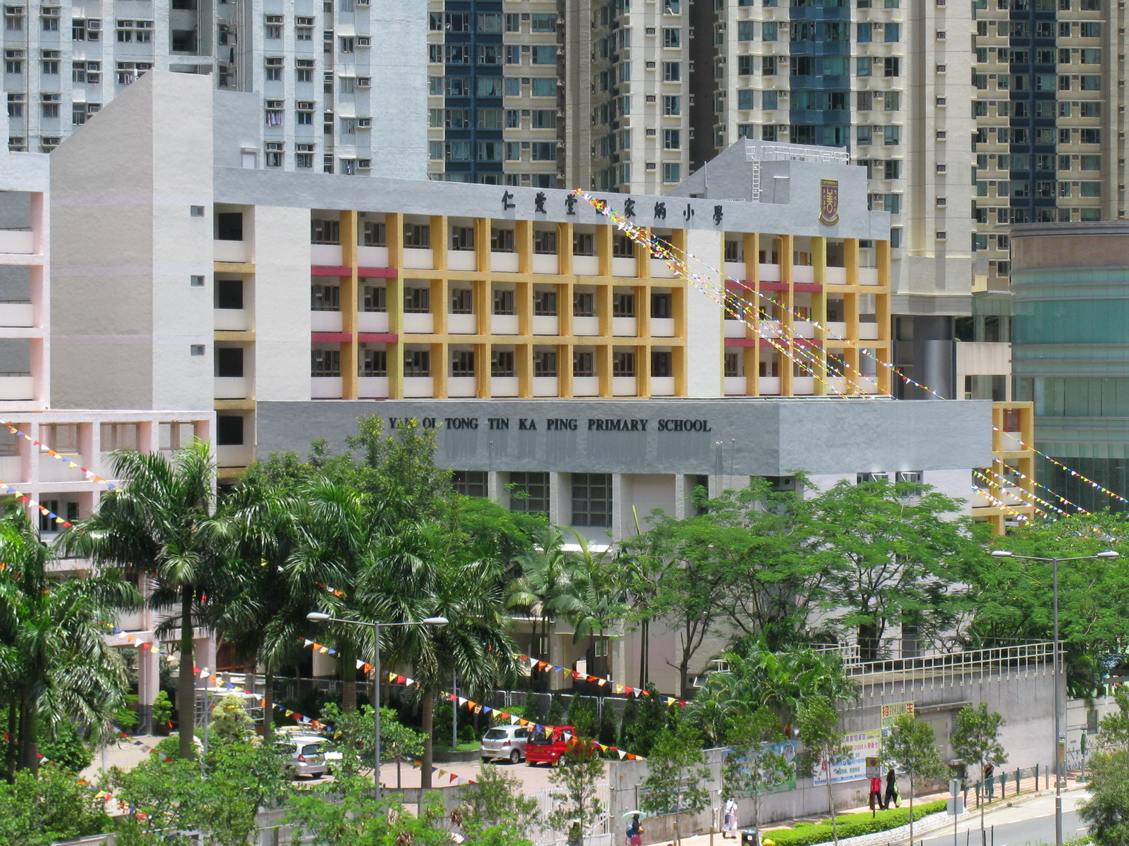 Yan Oi Tong Tin Ka Ping Primary School